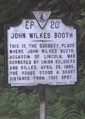 Marker at Site of John Wilkes Booth's capture in 1865, on U.S. Rt. 301 near Port Royal, Virginia.